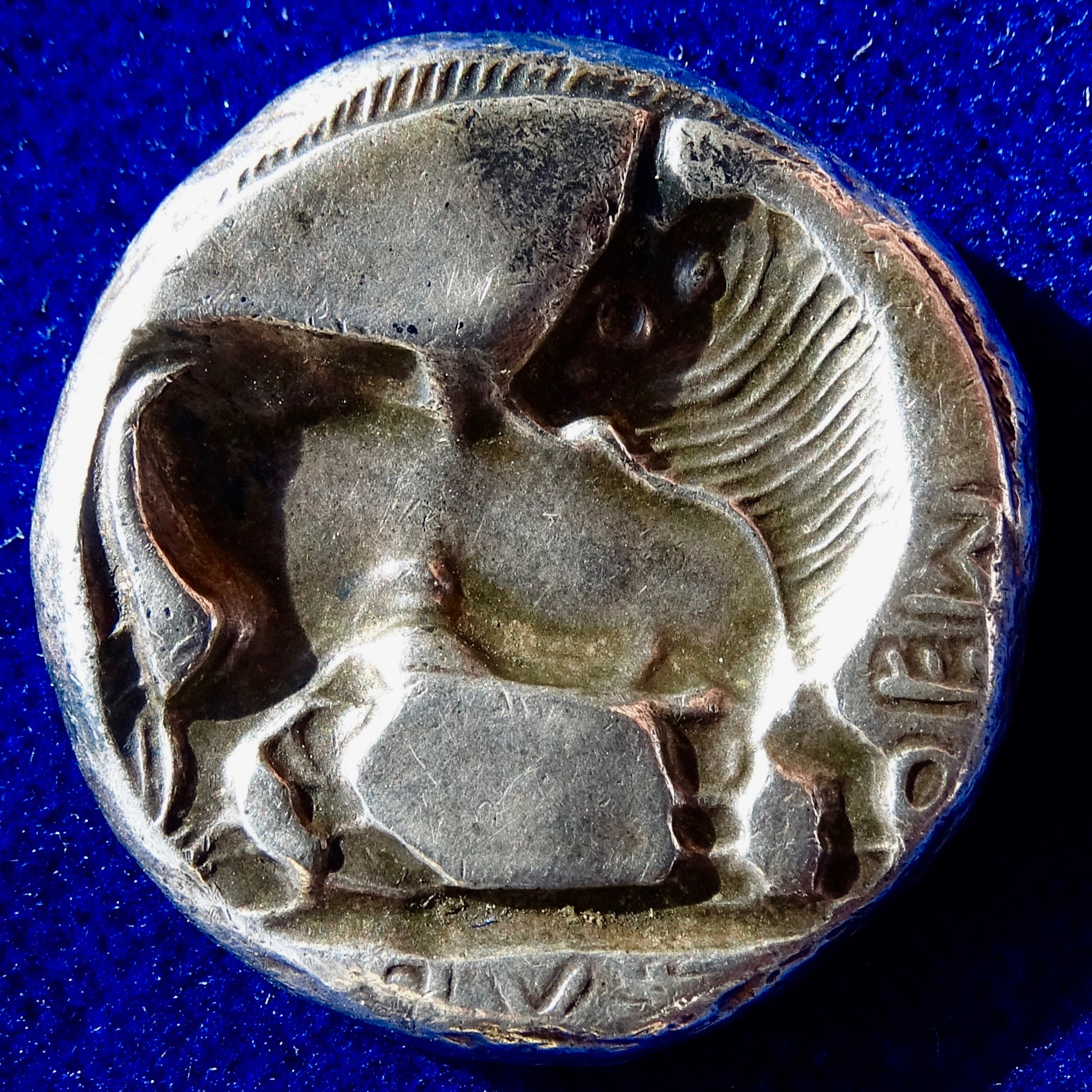 Lucania (southern Italy), Ionian colony Siris, Tetradrachm about 520 B.C. Original creation by Carl Wilhelm Becker. Siris was a Greek colony which at one time attained to a great amount of wealth and prosperity; however, its history is extremely obscure and uncertain. D. = 28 mm. 18.69 g Ag Standing Bull l. looking back. In ex and at l.: "MZPZNOM"/ Bull incuse standing r., and looking l. In exergue and at r.: "PVXOEM. Forrer I, p.145, no. 11; Sir George Hill, Becker the Counterfeiter, no. 11. Medallist: Carl Wilhelm Becker, 1771 Speyer - 1830 Bad Homburg, Germany Becker was one of the most skilful counterfeiters of ancient coins of all times. The dies of his Greek counterfeits now belong to the Berlin Bode Museum. The Bode Museum is one of the group of museums on the Museum Island in Berlin. Originally called the Kaiser-Friedrich-Museum after Emperor Frederick III, the museum was renamed in honour of its first curator, Wilhelm von Bode, in 1956. It is part of the Berlin State Museums. In 1999, the museum complex was added to the UNESCO list of World Heritage Sites. Condition: The original silver strike by Becker had been "taken for a drive" with iron fillings in a box attached to the wheel of his carriage. So it looks a bit worn in comparison to the copper strike from the original dies.